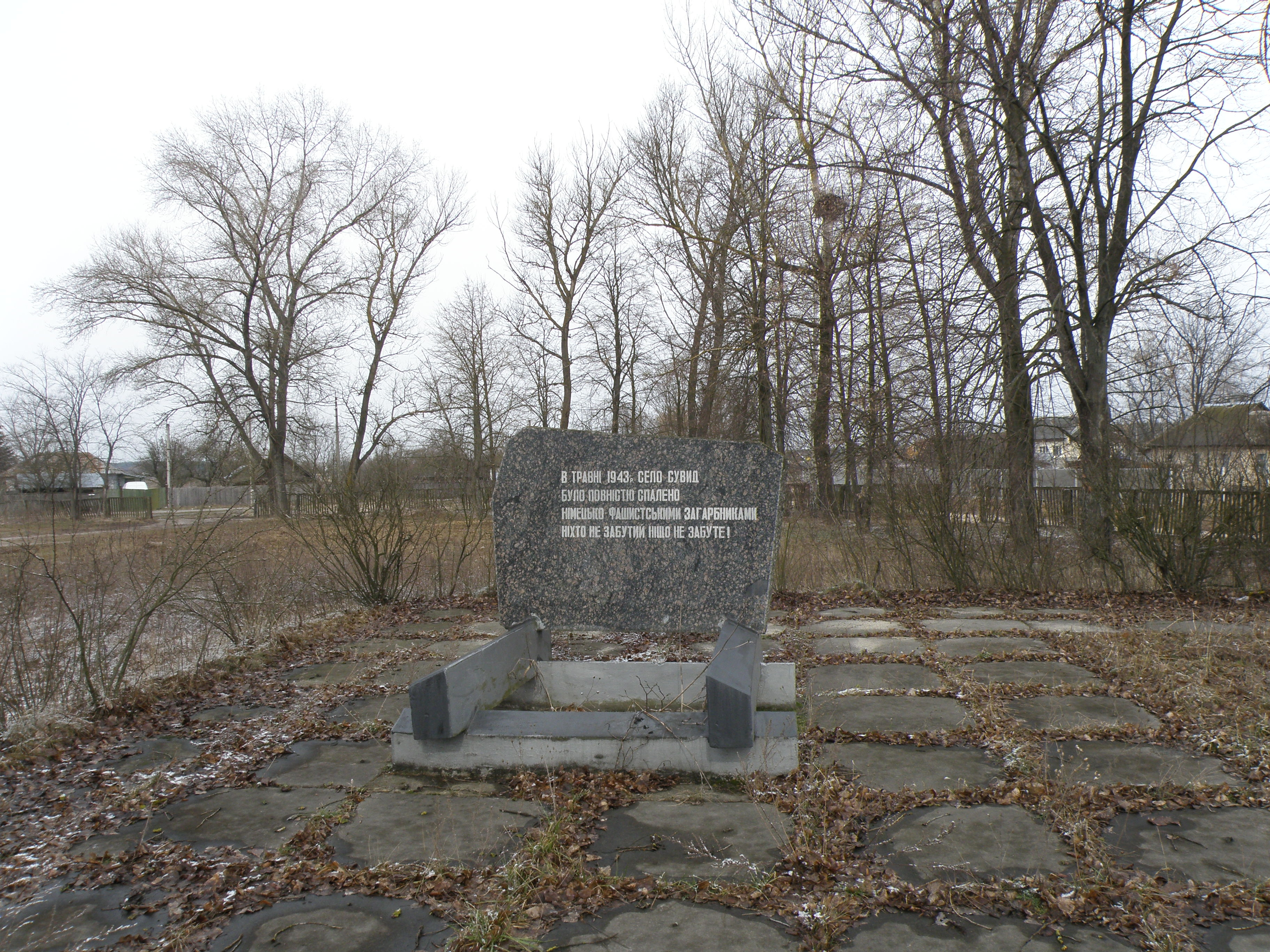 Suvyd, monument about demolition of Suvid by Nazies in 1943